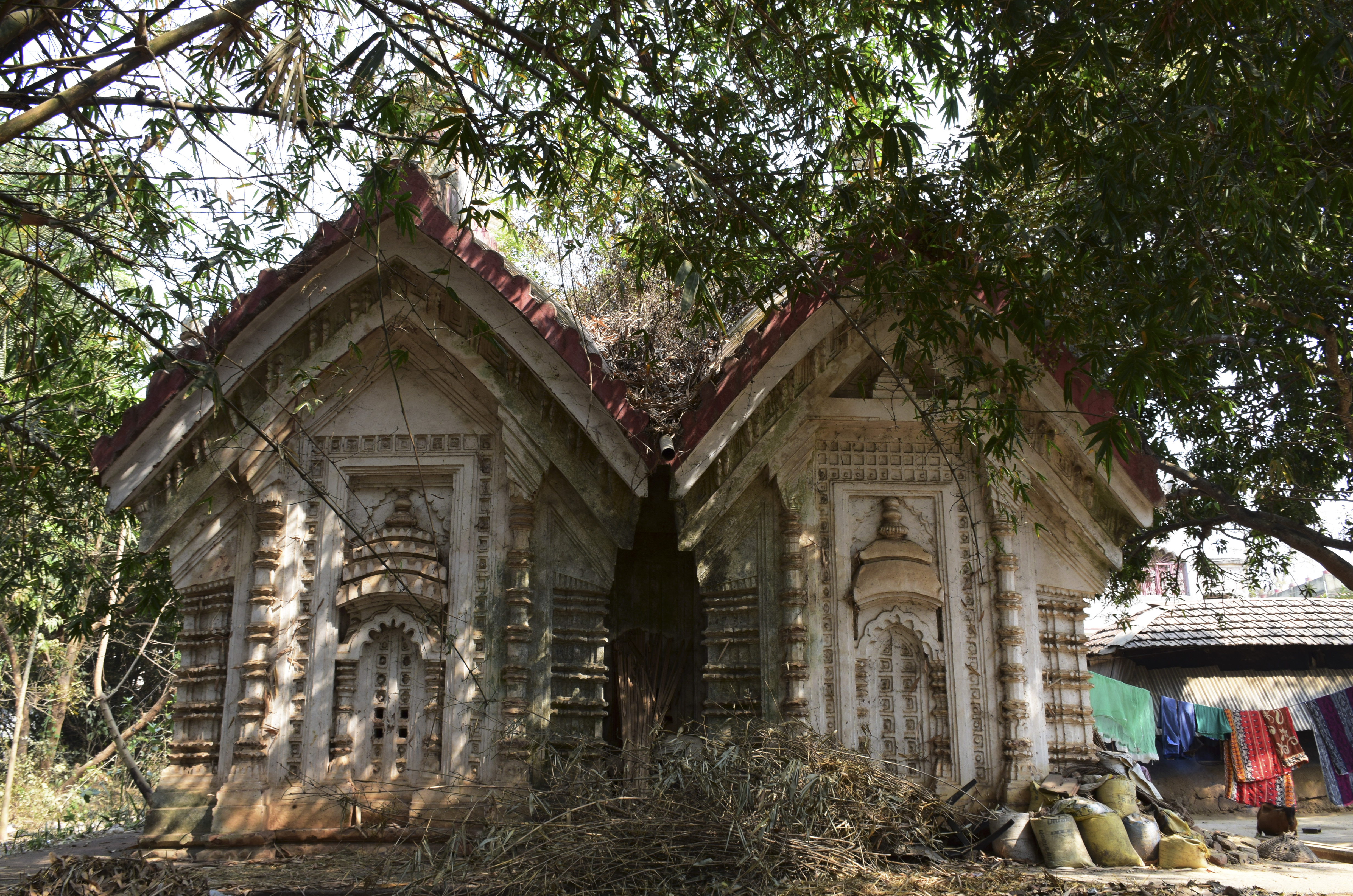 Jorbangla temple at Chandrakona located at Ghatal subdivision of Paschim Medinipur district of West Bengal. This is Laterite stone built temple with extensive stucco decoration. The temple is twenty feet high, around 28.6 feet in length and 26 feet in width. The temple is devoid of any foundation stone and is considered to be made in the 17th century. There is no other temple of this style of architecture at present in Chandrakona. Although the temple has been restored and protected under State Archaeology department, yet the temple lies in complete ignorance. The contrasting fact is that despite the fact worship takes place inside the temple, it is also a storehouse of fodder for animal and the locals put cow dung on its walls. There is always a clothesline hanging in front of this temple which hinders in taking decent photo of this temple.